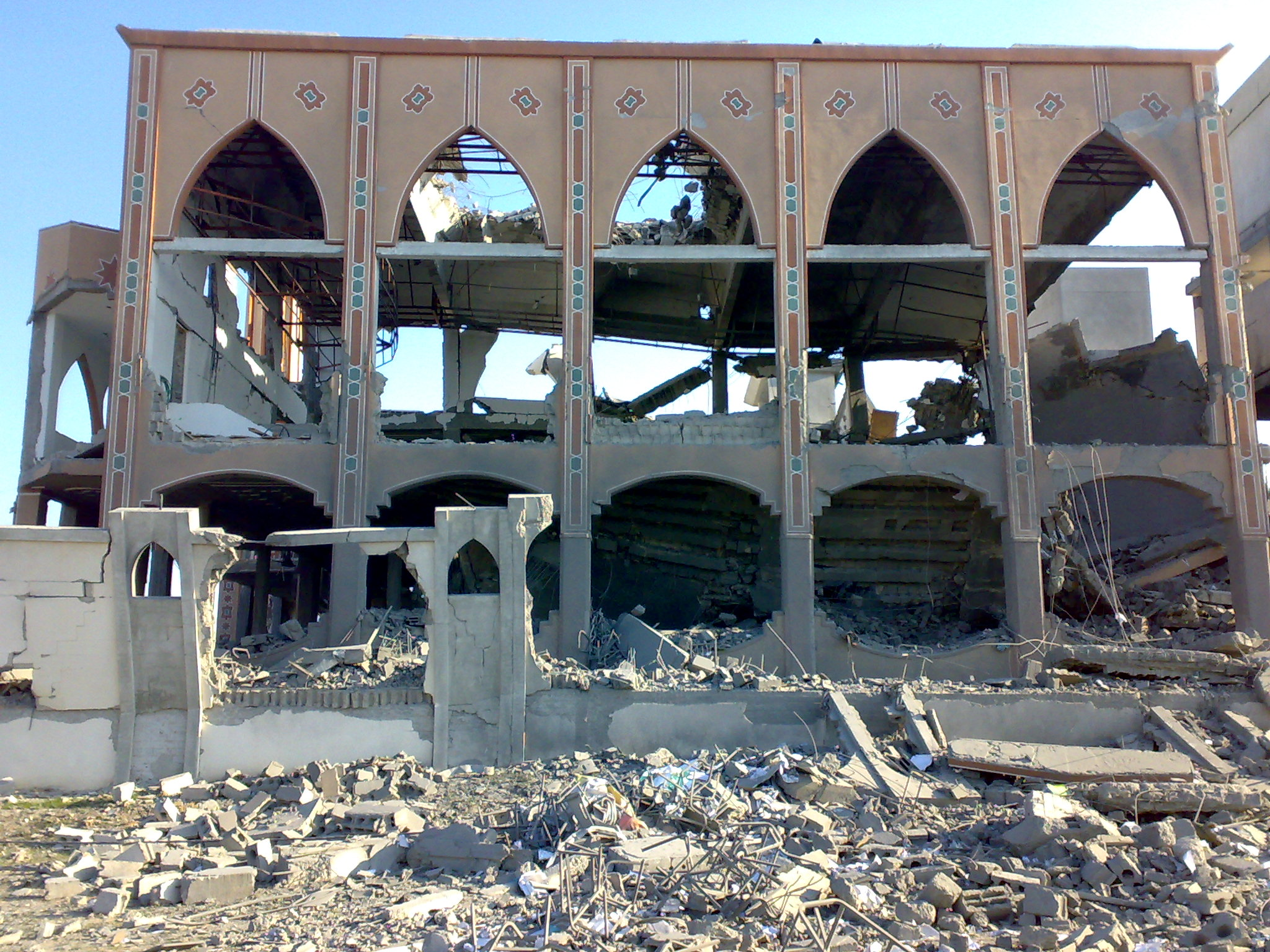 Photos taken from UNRWA refugee shelters, school and mosque in Rafah, Gaza 12th January 2009 - Photos taken from UNRWA refugee shelters, school and mosque in Rafah, Gaza - Photos taken by ISM Gaza Strip 12th January 2009 - Photos taken by the International 12th January 2009 - Photos from Rafah UNRWA refugee shelters, school and mosque. Photos taken by the International Solidarity Movement